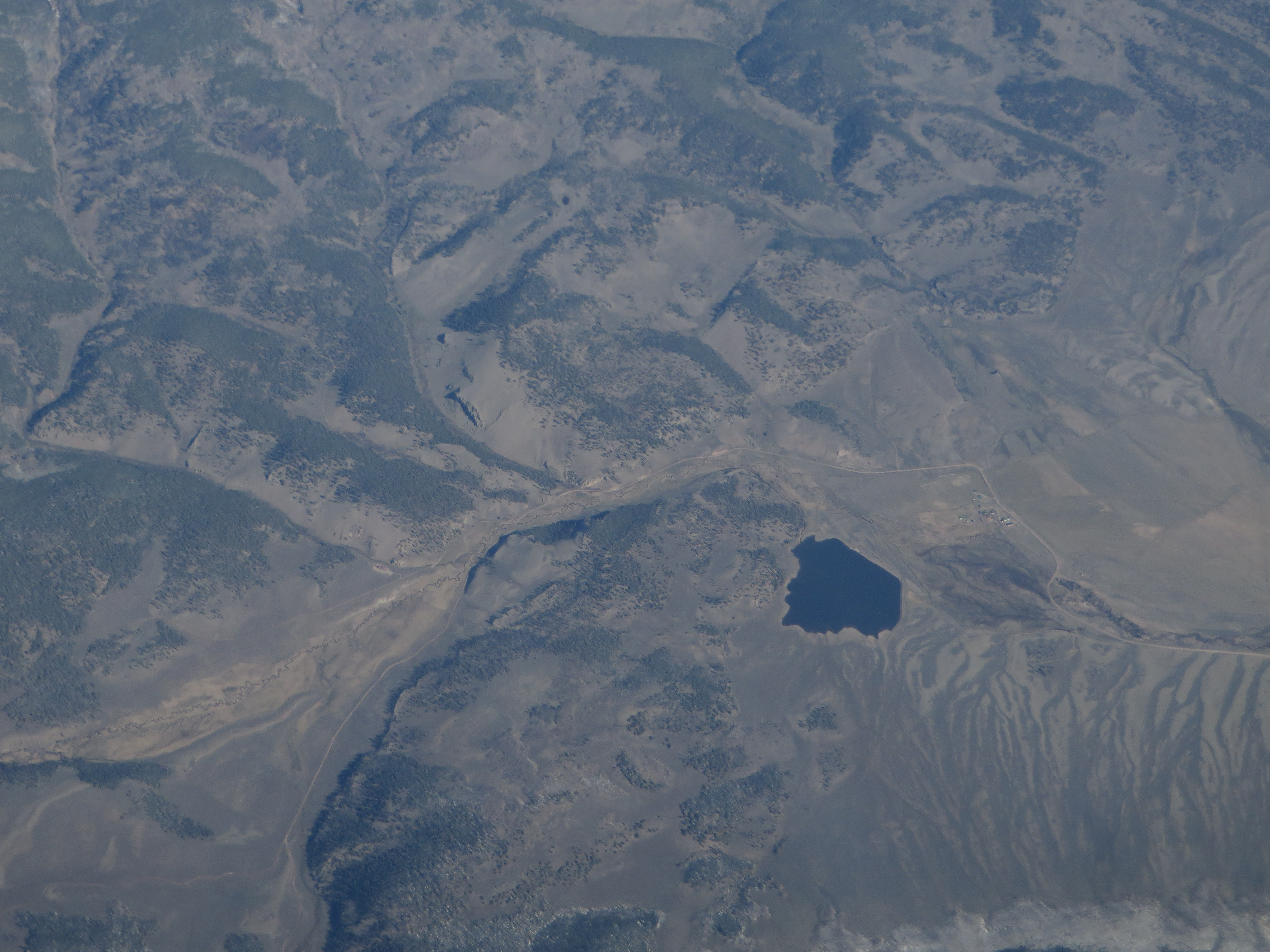 The Cochetopa Hills are a ridge of uplands on the Continental Divide in southern Colorado, United States. The ridge bridges the southern terminus of the Sawatch Range to the northern terminus of the La Garita Mountains. The Cochetopa Hills are characterized by rolling terrain with peaks between 11,000 and 12,000 feet (3,400 and 3,700 m) and noteworthy volcanic geology. The Sawatch Range to the northeast and the La Garita Mountains to the south are characterized by higher peaks. On USGS topographic maps, the area labeled as the Cochetopa Hills is roughly bounded by 13,269-foot (4,044 m) Antora Peak, the town of Sargents, the drainage of Cochetopa Creek, and the town of Saguache. North Pass on State Highway 114 and the backcountry Cochetopa Pass allow passage from the upper Rio Grande drainage on the east to the upper Gunnison River drainage to the west. The practice of naming mid-elevation upland areas in central and southern Colorado using the word hills was also illustrated by the naming of the similar uplands between the upper Arkansas valley and South Park: the Arkansas Hills.